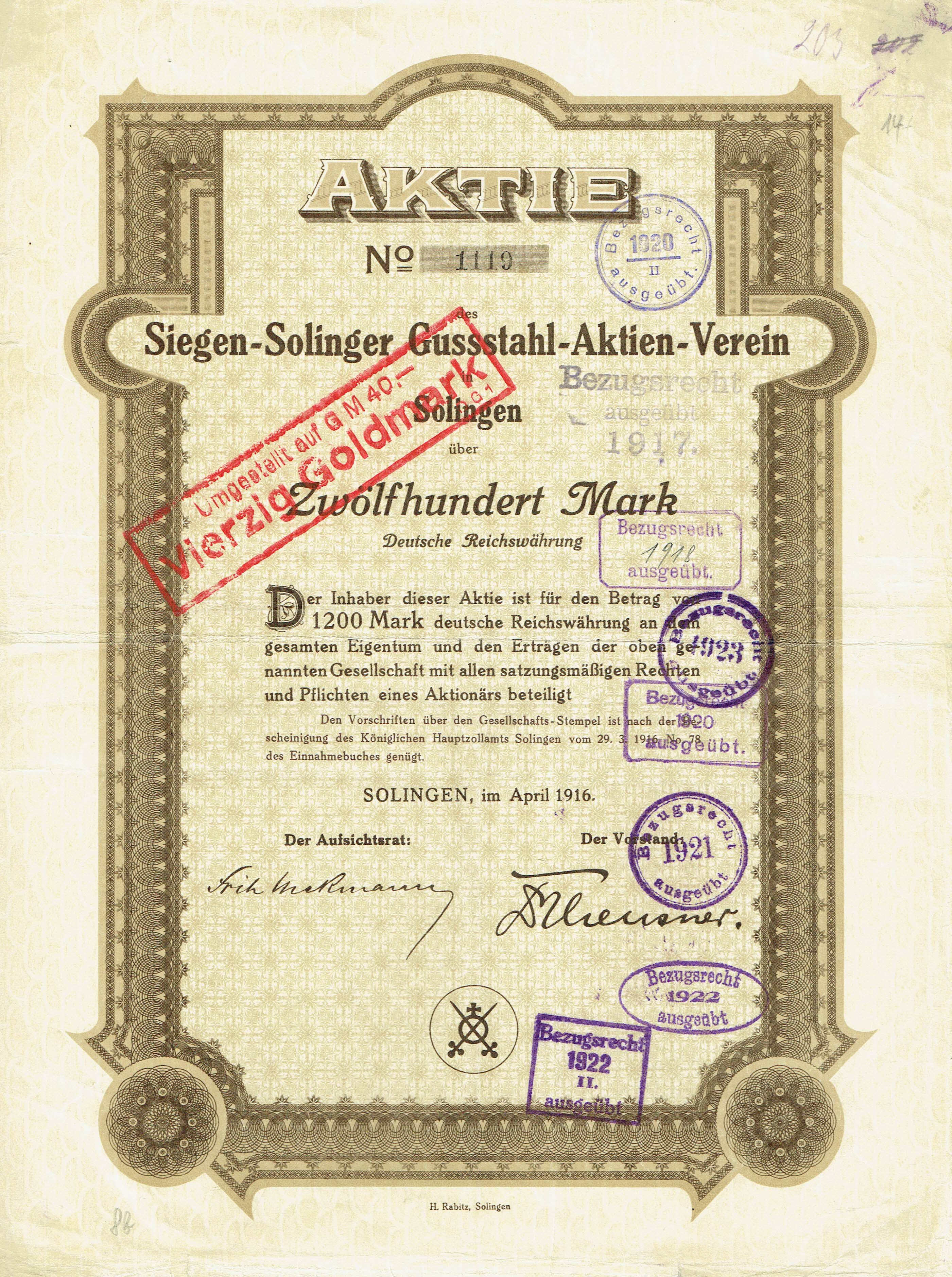 Share of the Siegen-Solinger Gussstahl-Aktien-Verein, issued April 1916